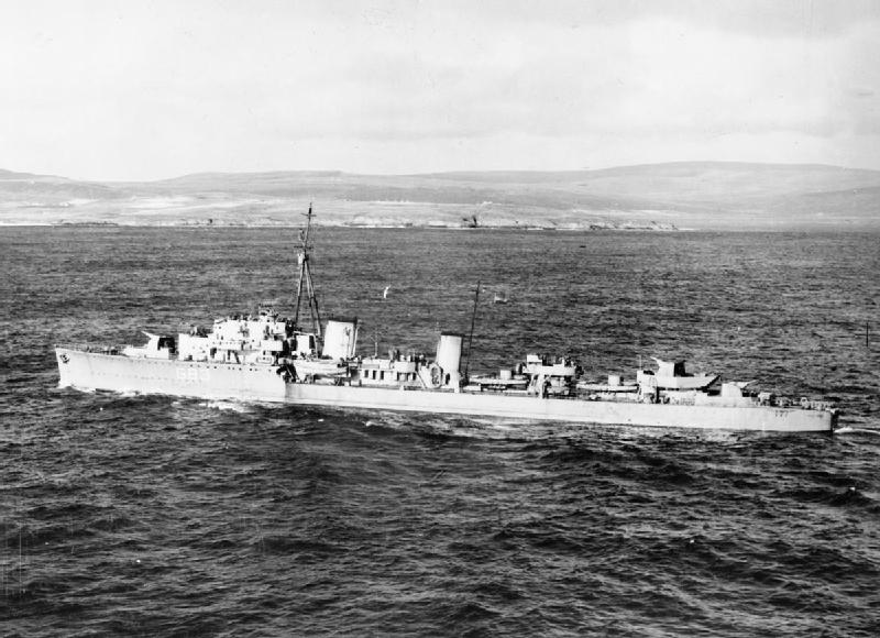 Hnms Isaac Sweers Underway, coastal waters.